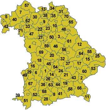 Map of Bavaria 14:04, 26 February 2003 Cordyph 338x350 (23533 bytes) (Map of Bavaria)